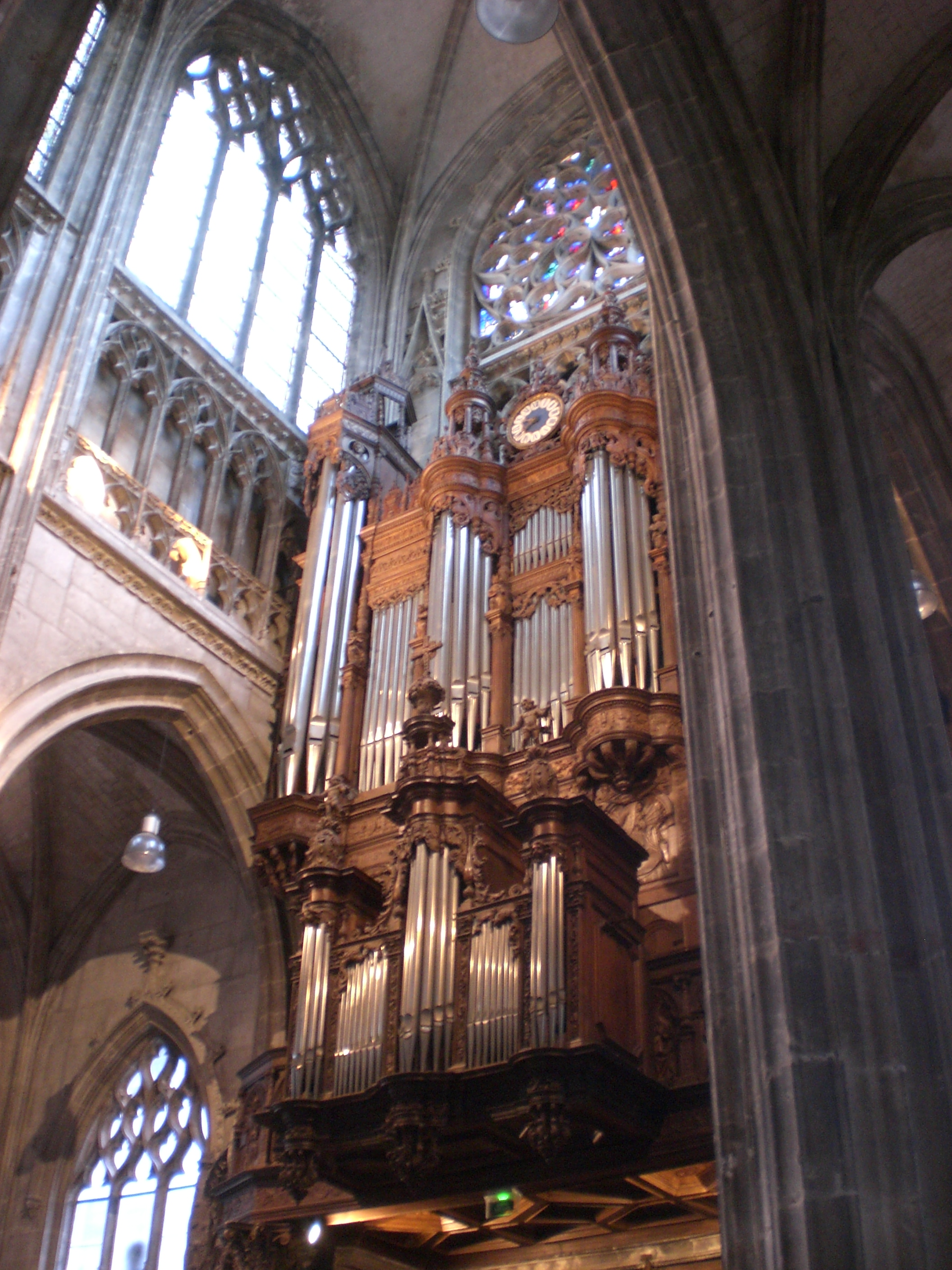 Rouen, Saint-Maclovius's Church, 1436-1520